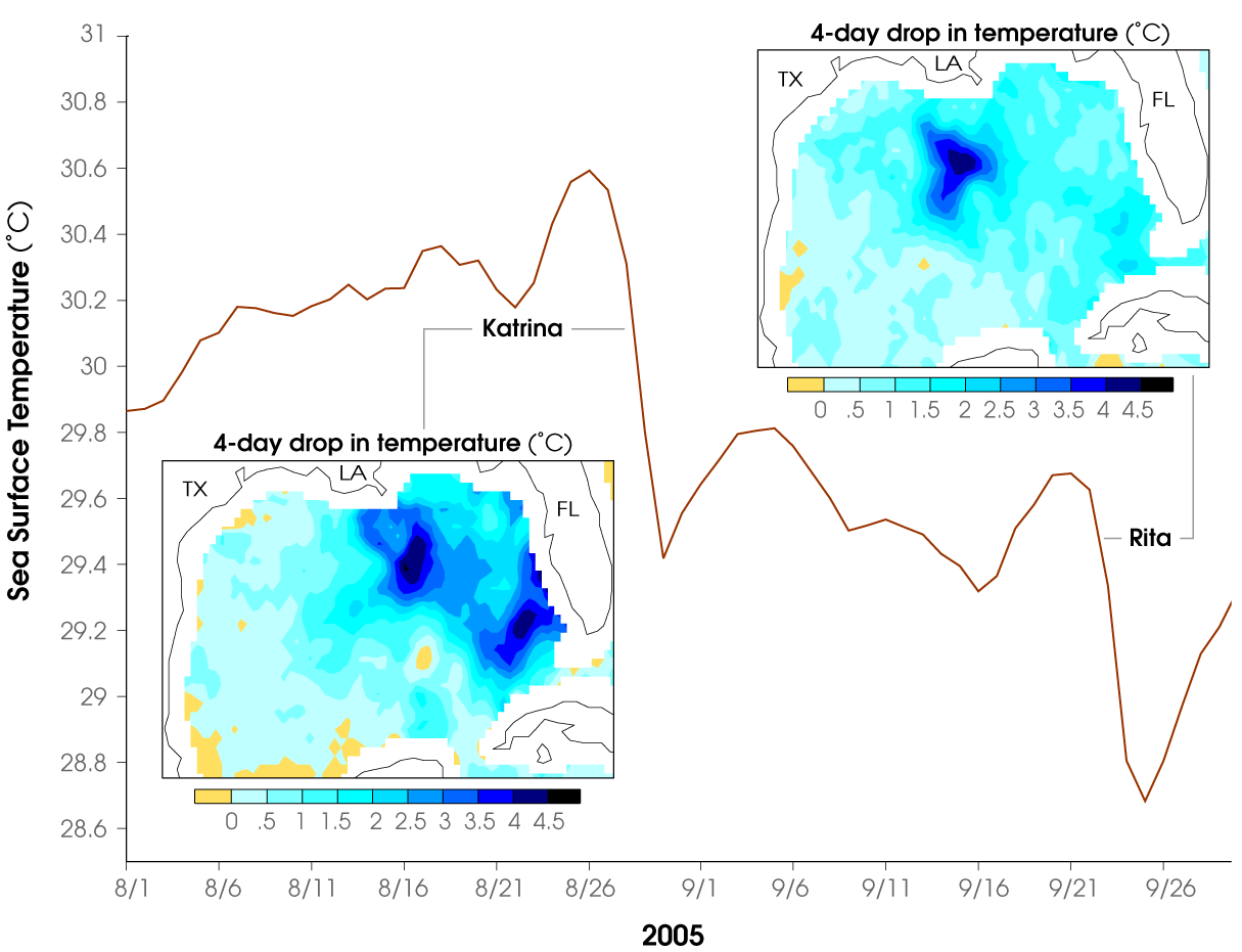 Chart showing drop in water temperature of the Gulf of Mexico as Hurricanes Katrina and Rita passed over.